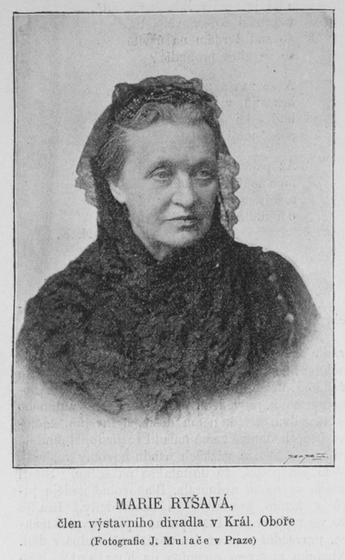 Portrait of Marie Ryšavá (1833-1912), Czech actress.